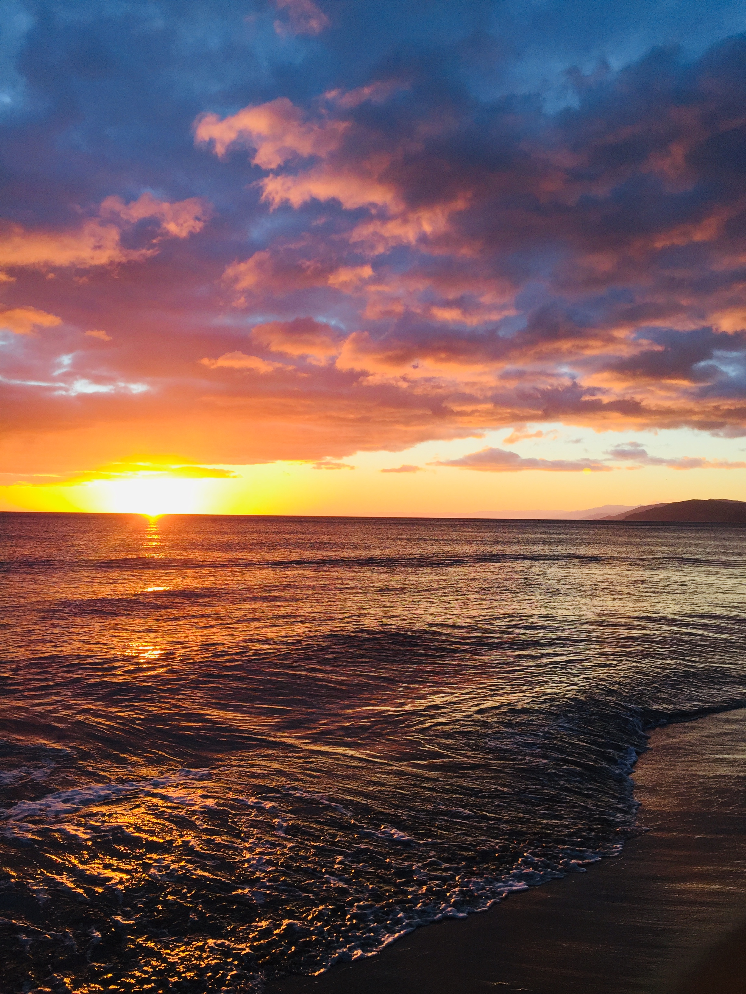 This picture took on sunrise